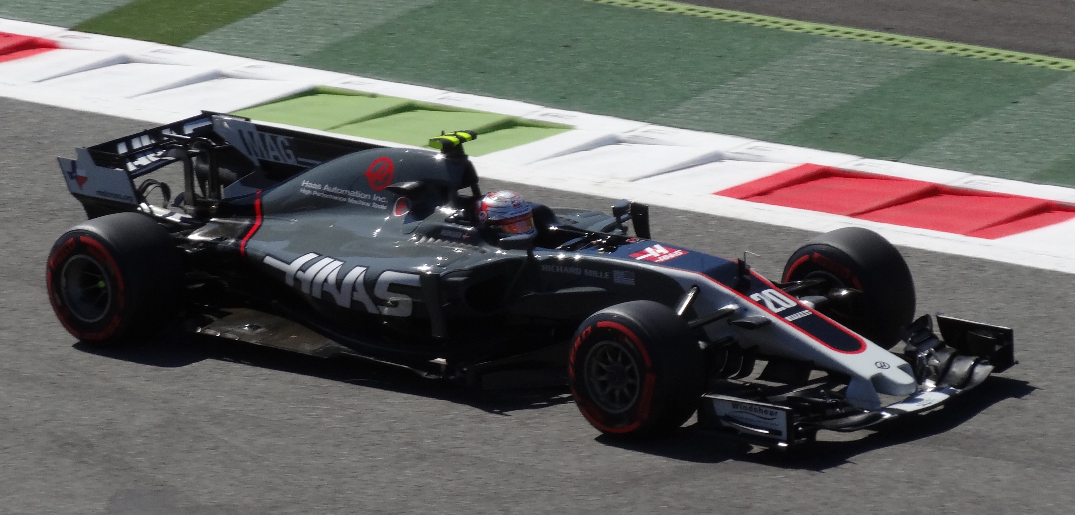 Magnussen Haas GP Monza 2017